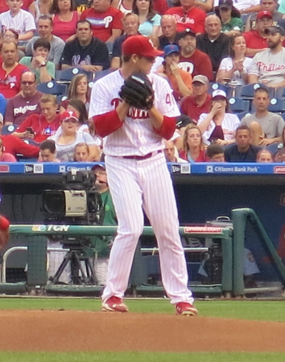 Jerad Eickhoff of the Philadelphia Phillies, July 16, 2016.